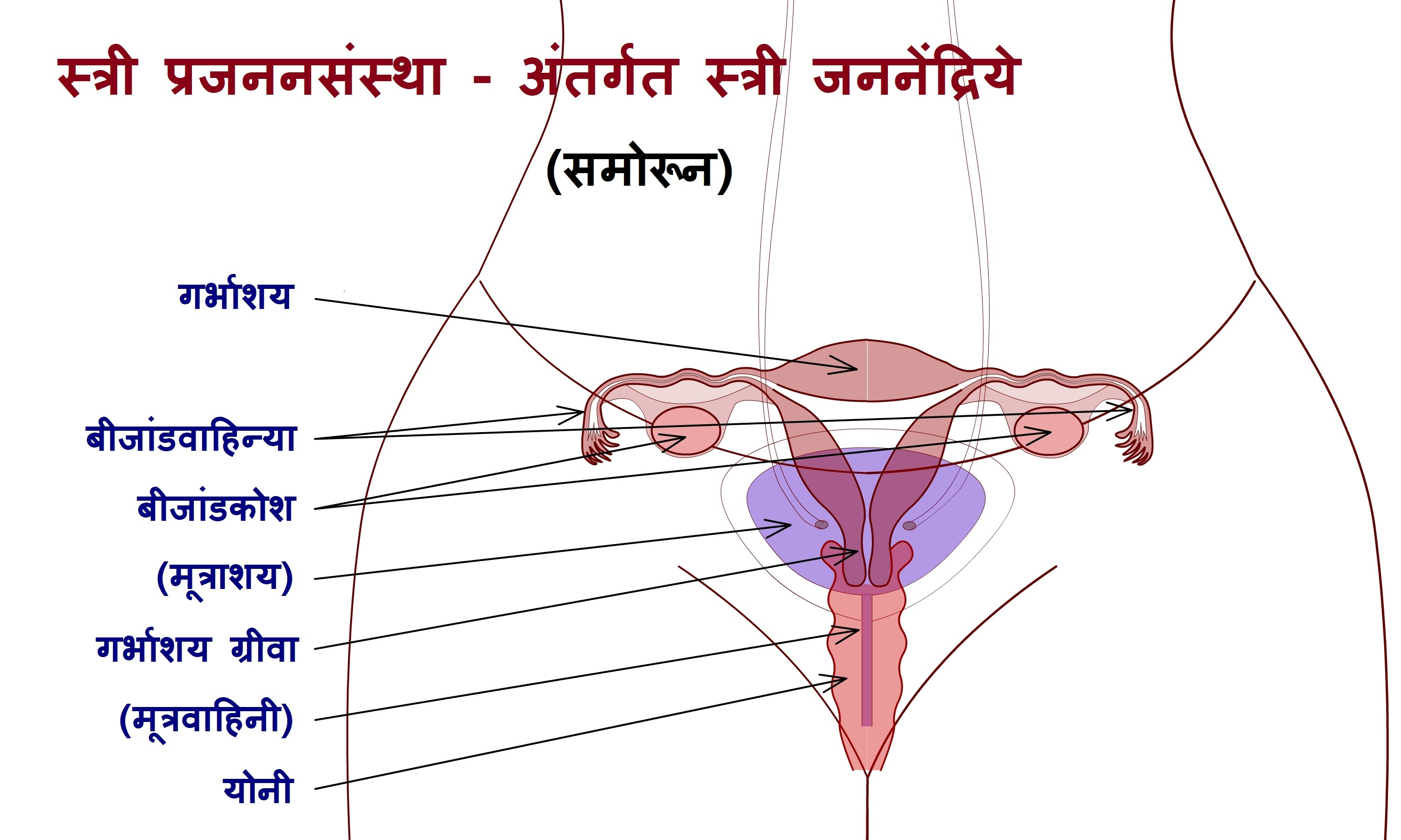 Schematic Figure showing Internal sex organs of Human Female Reproductive System from front